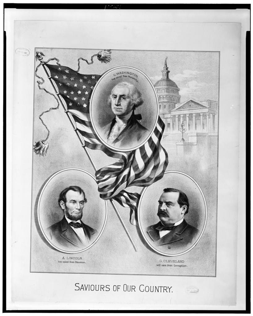 An election poster for the United States presidential election, 1884, in support of Grover Cleveland. At the top is George Washington, and the caption says: "Has saved from monarchy", bottom left is Abraham Lincoln and it says: "Has saved from disunion" and on the bottom right is Cleveland, and it says: "will save from corruption". The title of the poster is "Saviours of our Country". The capitol is in the background.